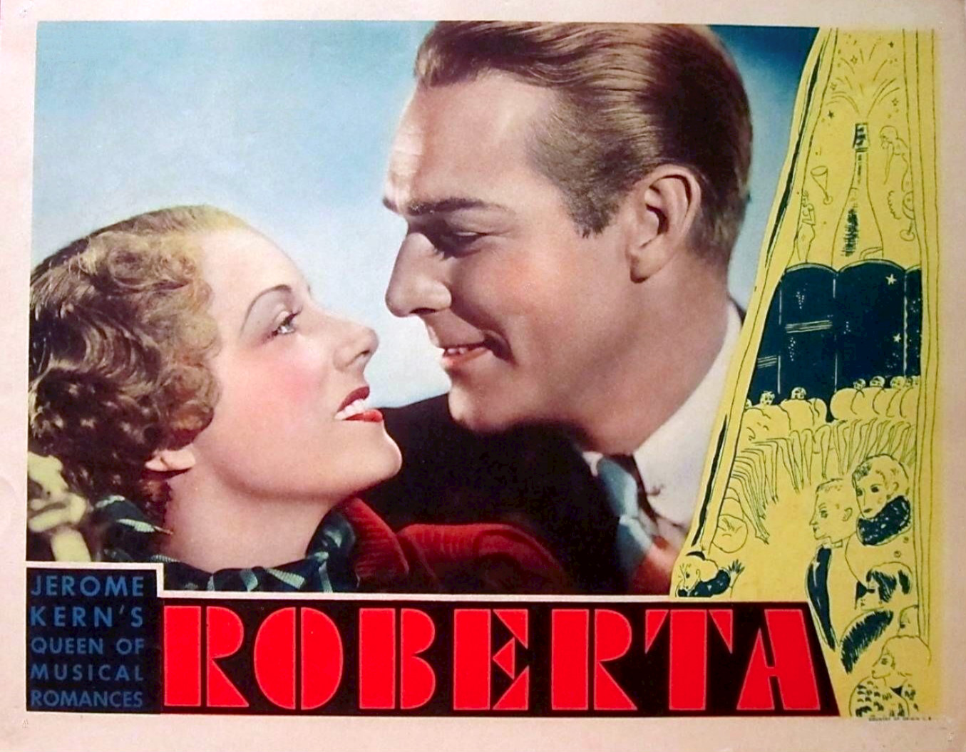 Lobby card from the American musical film Roberta (1935).